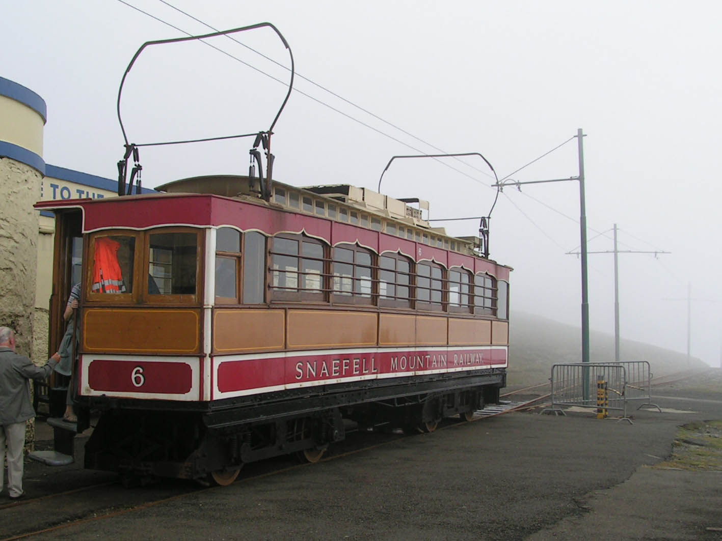 Car of the Snaefell Mountain Railway on the Summit station